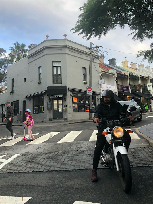 A cafe at Five Ways in Paddington